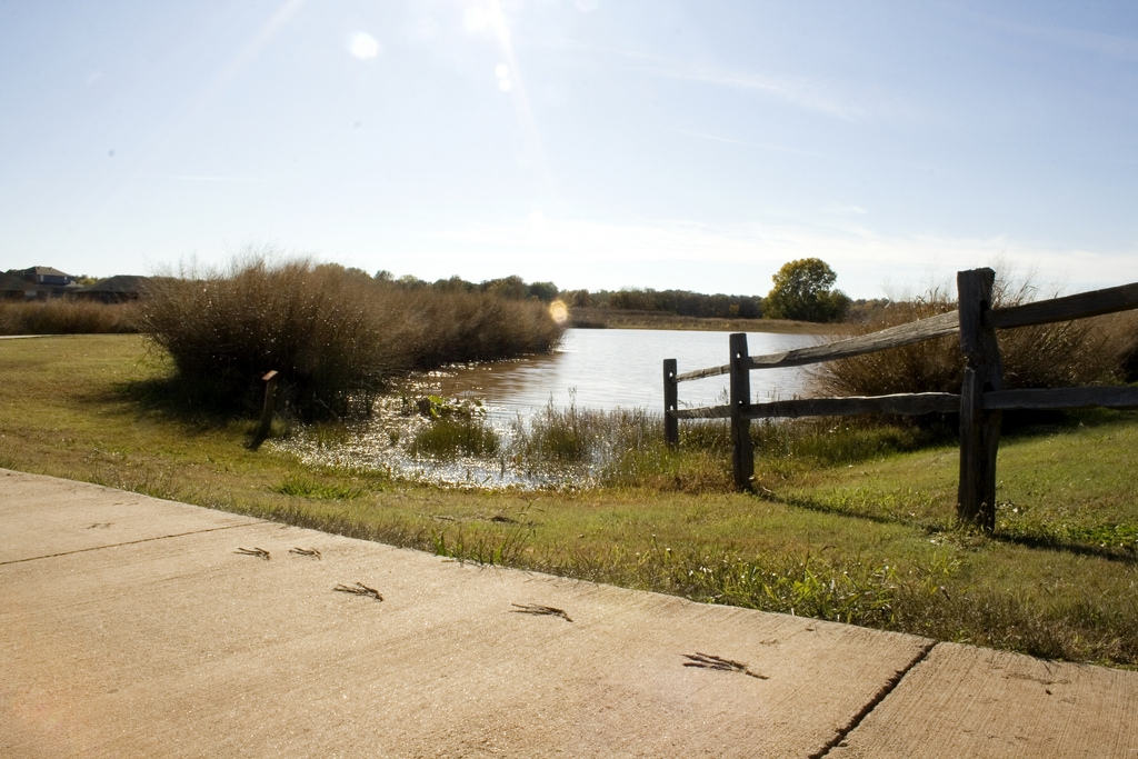 Local lake on a peaceful evening